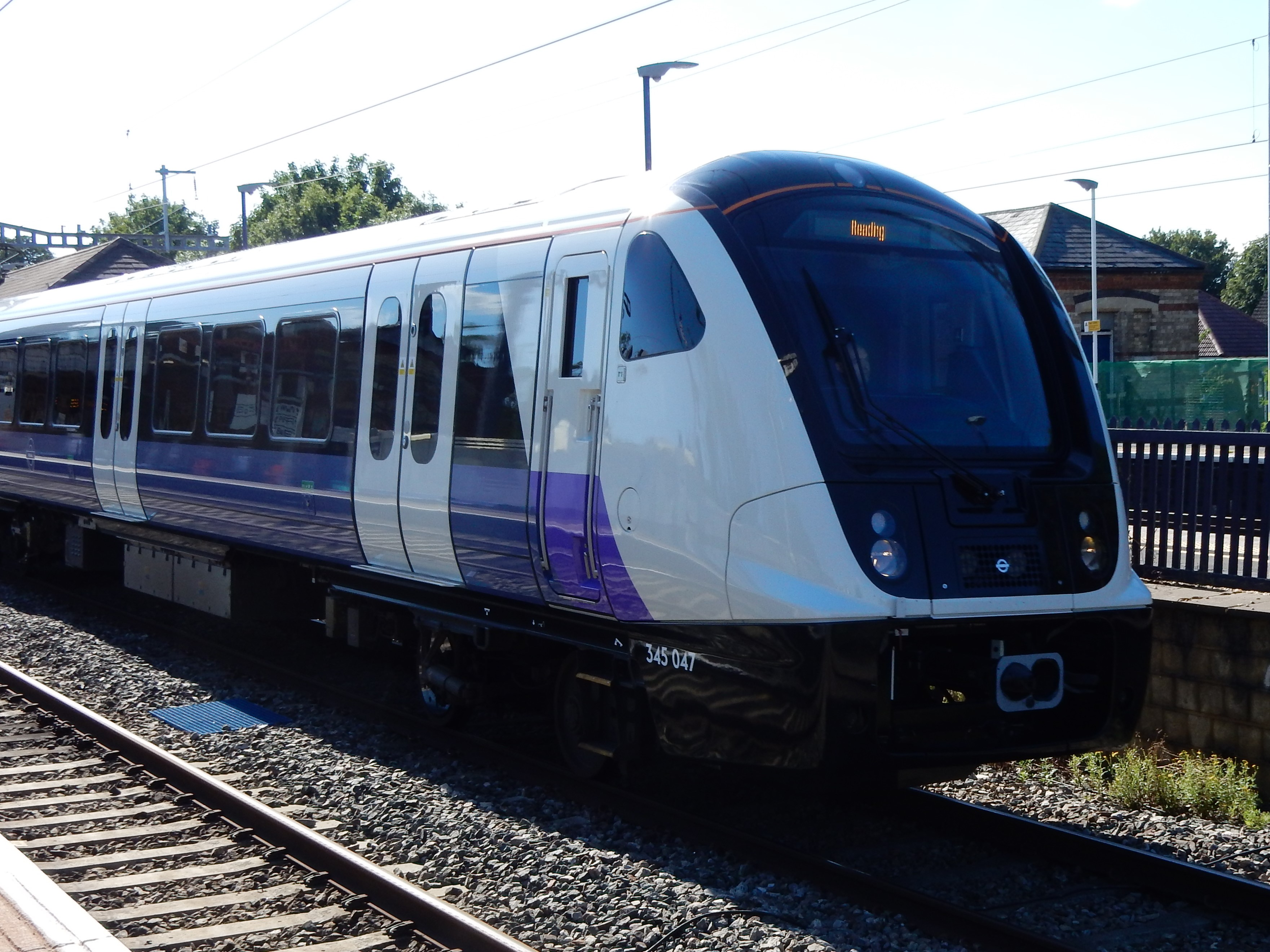 TfL train bound for Reading departs West Drayton Station.